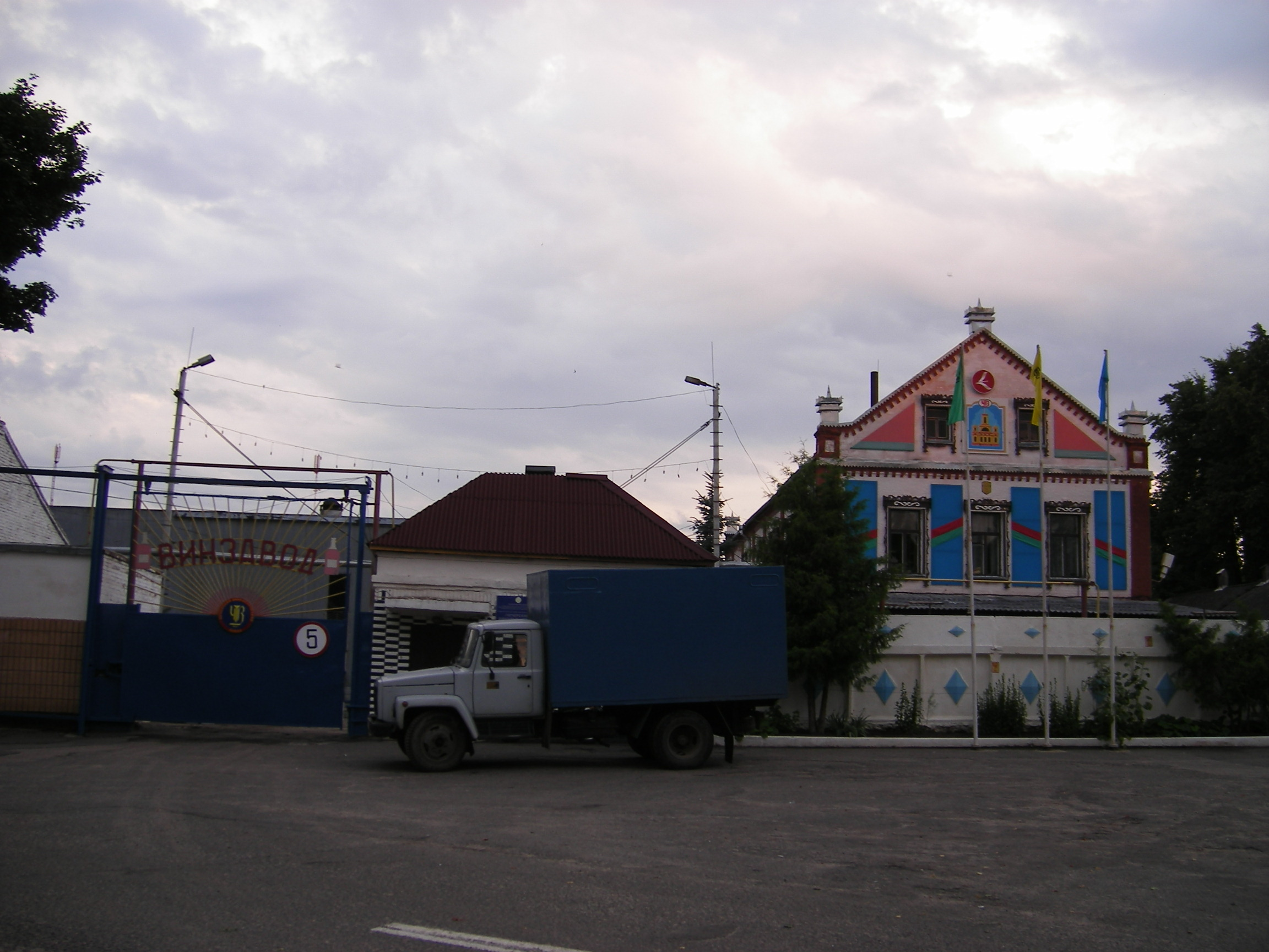 Chachersk, Wine factory